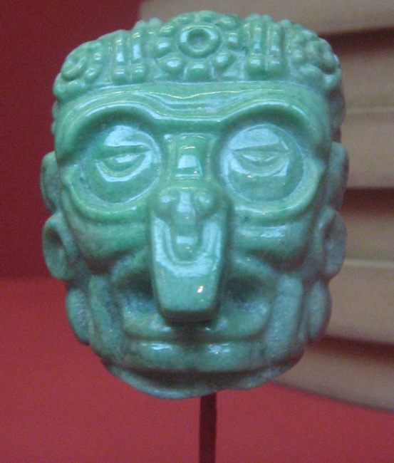 Guatemala, Maya Pendant, 250-450 A.D. Jewelry/personal adornment, Jadeite, 2 1/2 x 1 7/8 x 1 1/4 in. (6.35 x 4.76 x 3.18 cm) Gift of the 2007 Collectors Committee (M.2007.54) Wikipedia Loves Art at the Los Angeles County Museum of Art This photo of item # M.2007.54 at the Los Angeles County Museum of Art was contributed under the team name "artifacts" as part of the Wikipedia Loves Art project in February 2009. Los Angeles County Museum of Art The original photograph on Flickr was taken by Beesnest McClain—please add a comment to the original Flickr page whenever a use has been made on Wikipedia or another project. Project galleries on Flickr: this institution, this team